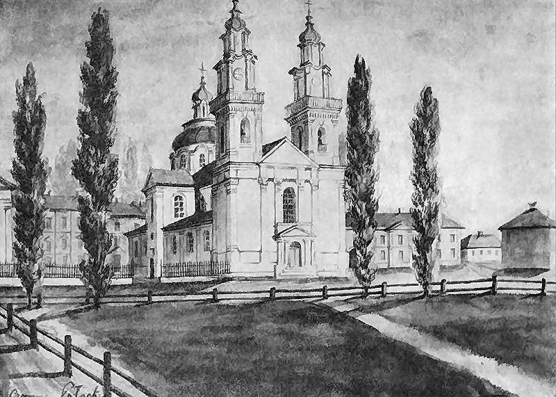 Catholic Church in Połacak